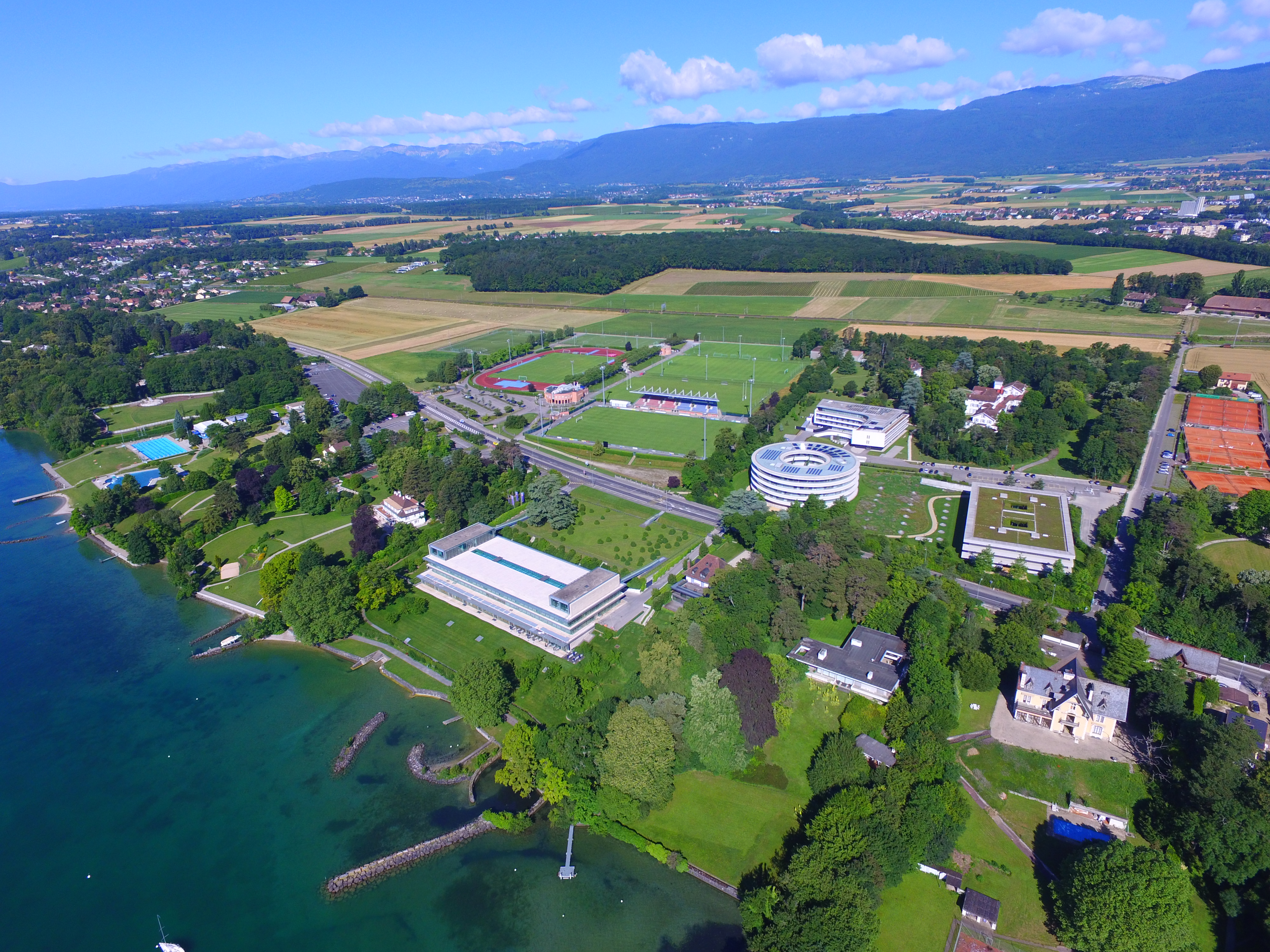 UEFA headquarter in Nyon